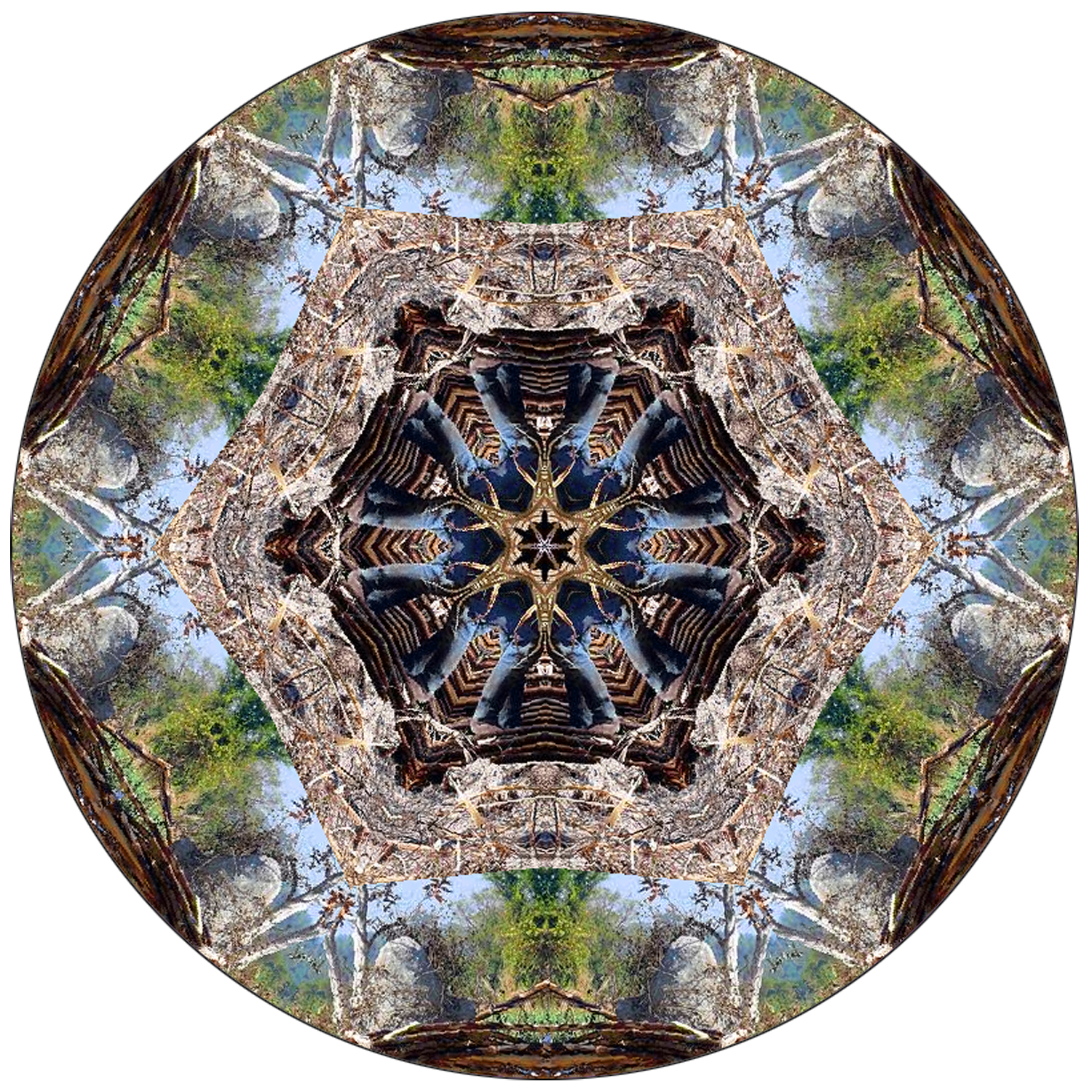 Digital kaleidoscopic still image of sugarcane harvest. This image is a screen grab from the interactive walk-in kaleidoscope artwork called Human^n. The artwork is by Carmin Karasic and Rolf van Gelder.